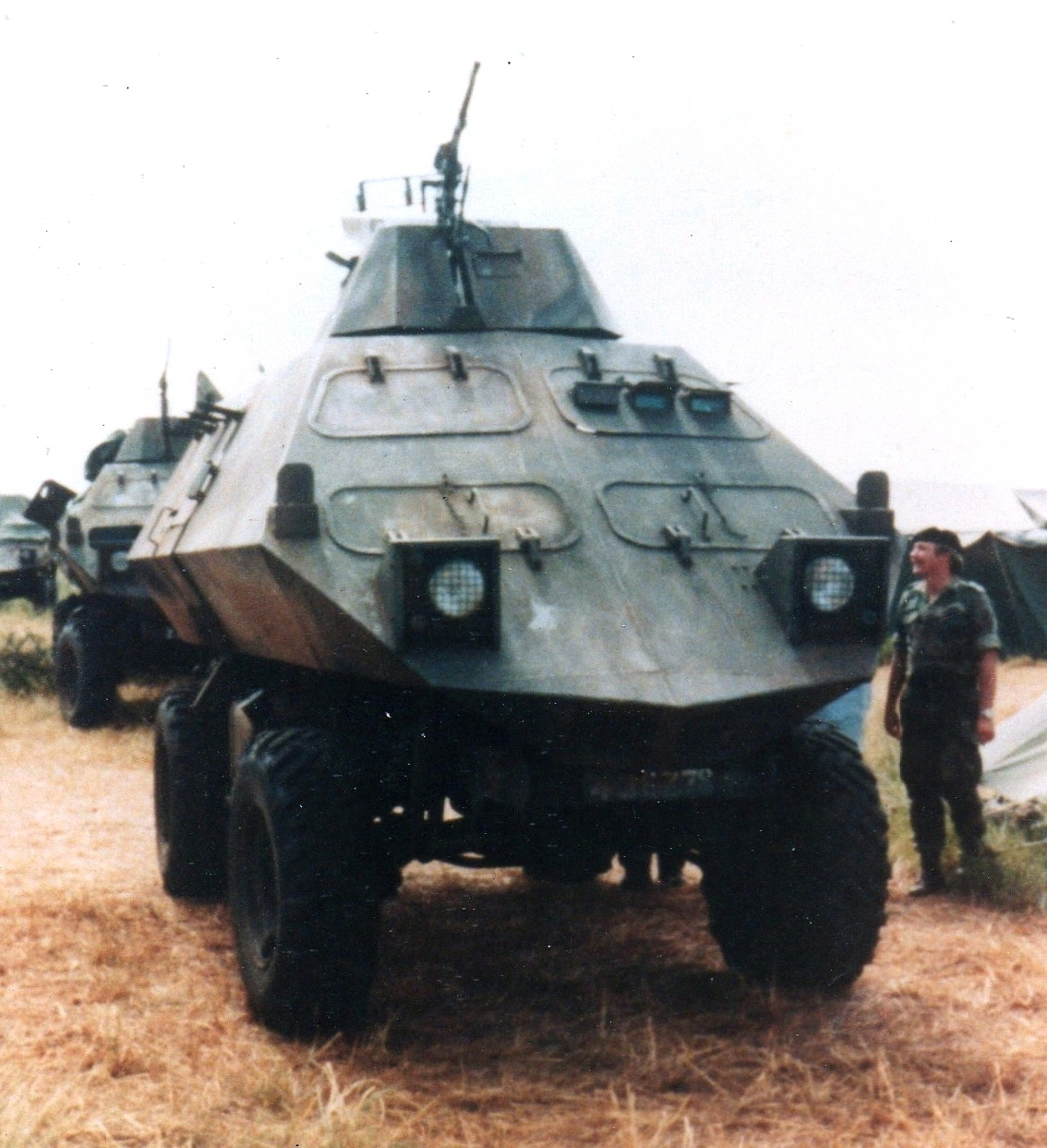 Mineproofed armoured vehicle of the Zimbabwe National Army (ZNA) at Methuen Barracks, 1980.